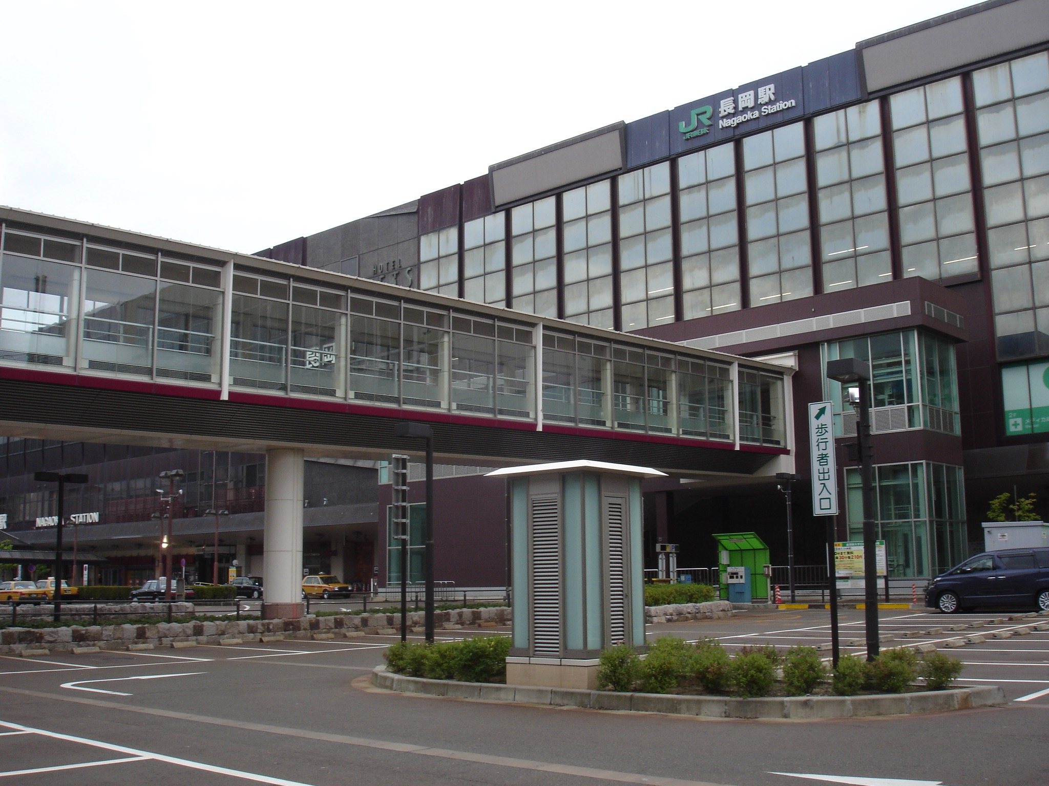 Nagaoka Station and Ōte Sky Deck